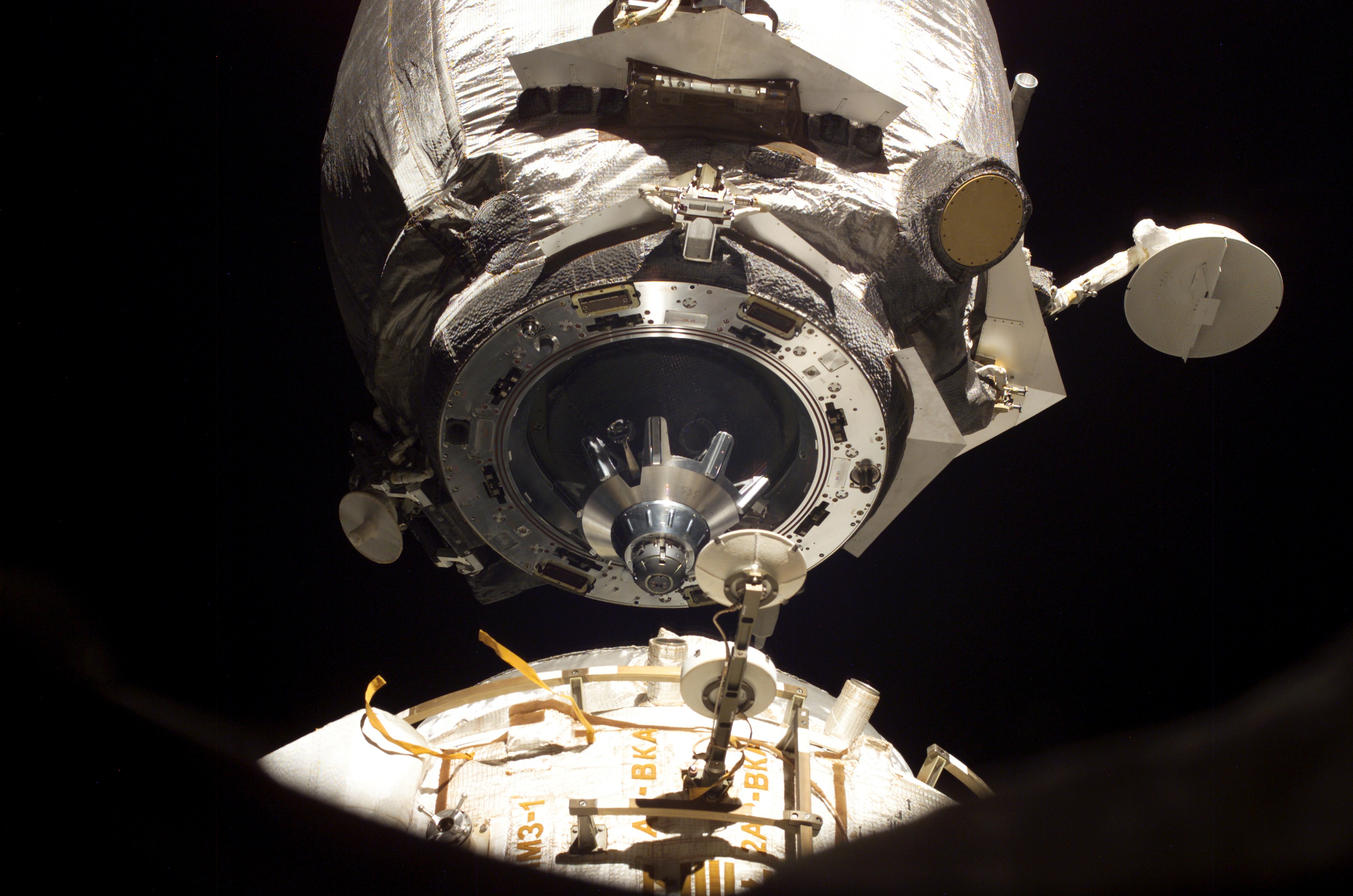 This close-up view of an unpiloted Progress supply vehicle was photographed by an Expedition 13 crewmember on the International Space Station as it departed from the Pirs Docking Compartment. The Progress 20 undocked June 19, 2006 and was later commanded to de-orbit with its load of trash and unneeded equipment and burn in Earth's atmosphere. The undocking clears the way for the arrival of a new Progress 22, planned to launch June 24 and dock with the station on June 26.